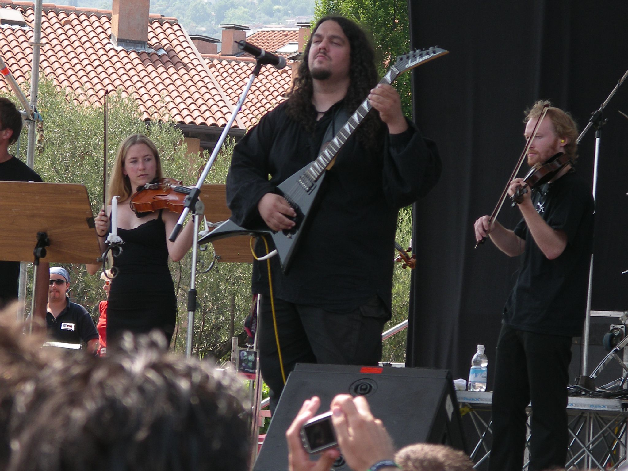 Haggard on stage in Italy at the Evolution Festival